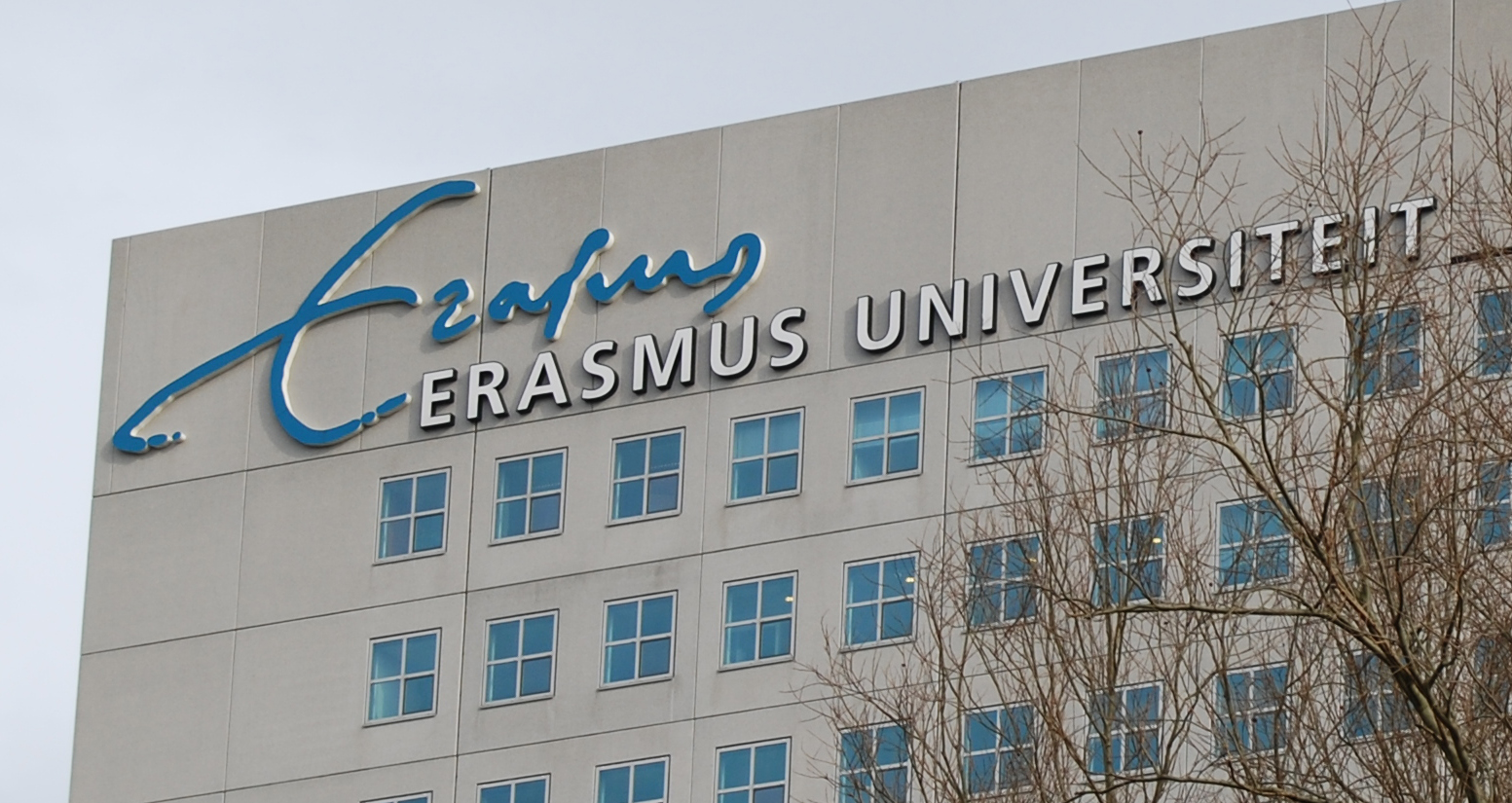 Erasmus University Rotterdam, T Building